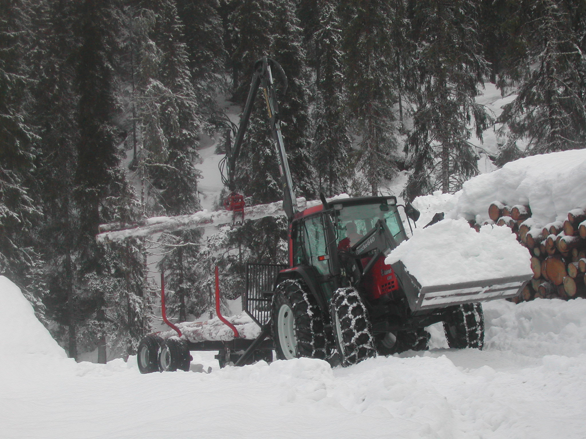 logging in Norway